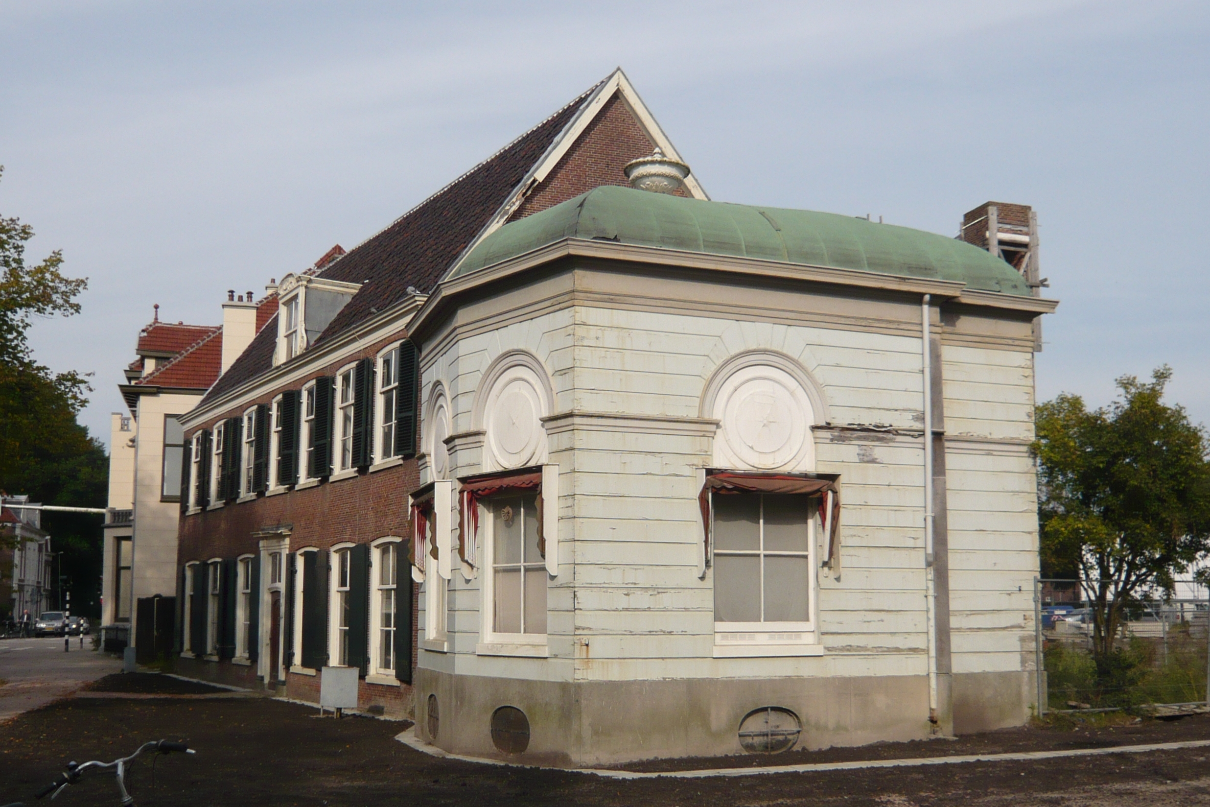 Small garden pavillion built in 1801 for the heiress Maria Hoofman, designed by Abraham van der Hart, the same architect who built the large "Paviljoen Welgelegen" across the park. Today it is associated with the 17th-century brick house next door to it called "Vredenburgh", but it was once at the entrance of an estate behind it that looked out over the Spaarne river called "Bellevue".